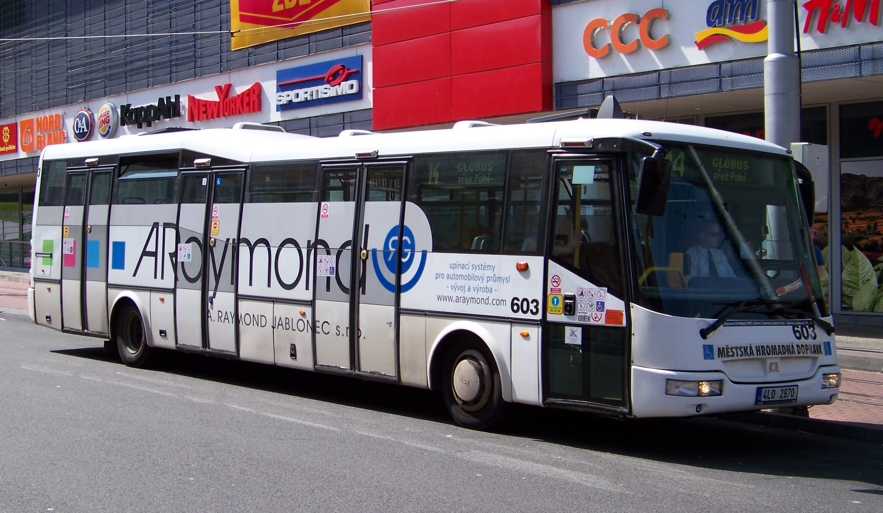 Liberec IV-Perštýn, Liberec Region, the Czech Republic. Fügnerova station, a bus at line 14 of DPMLJ.